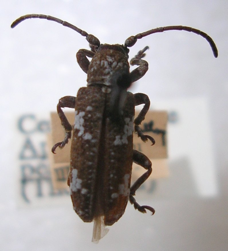 Apomecyna saltator from Hawai'i.